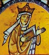 Gertrude of Merania